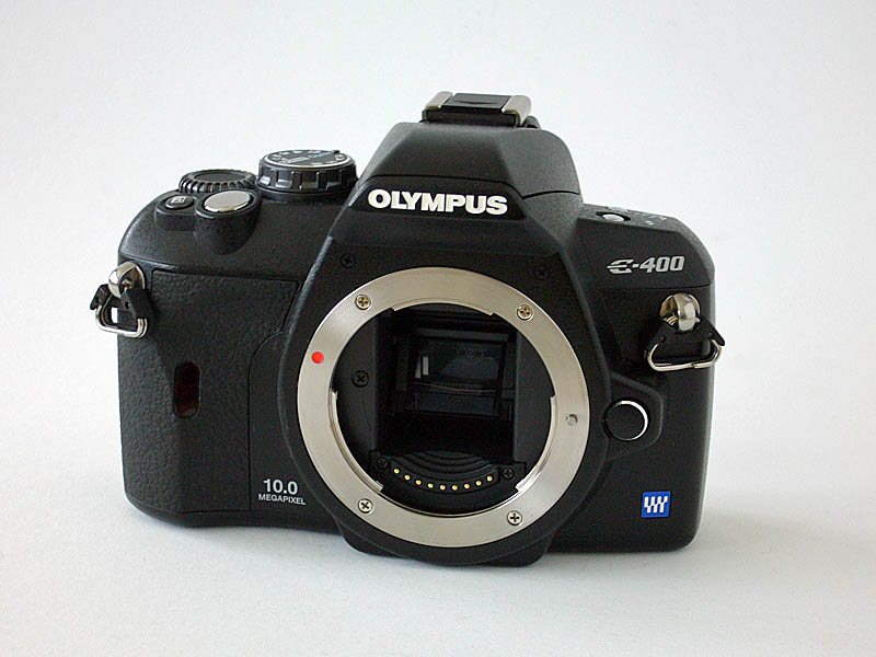 Olympus E-400 front side